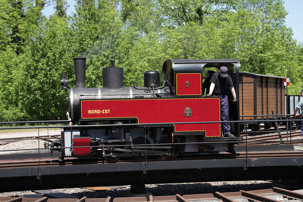 Locomotive Decauville n°1652 de l'APPEVA